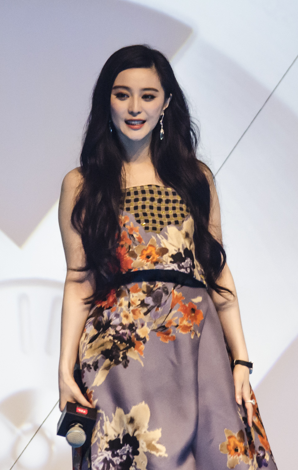 Fan Bingbing at the Southeast Asia Premiere for X-Men: Days of Future Past, 14 May 2014, Singapore